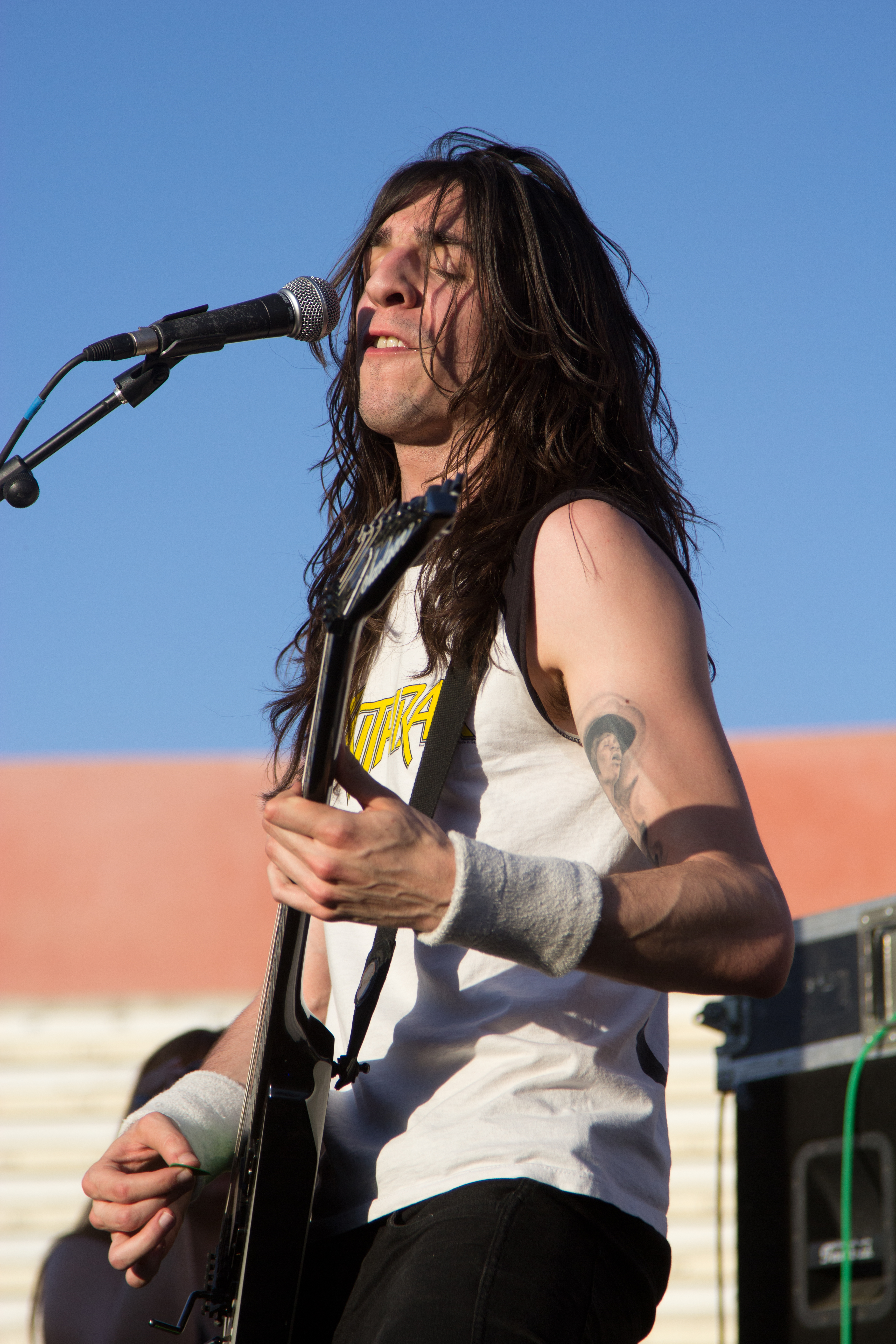 Spanish metal band Crisix at Asaco Metal Fest 2013, Parla, Spain.